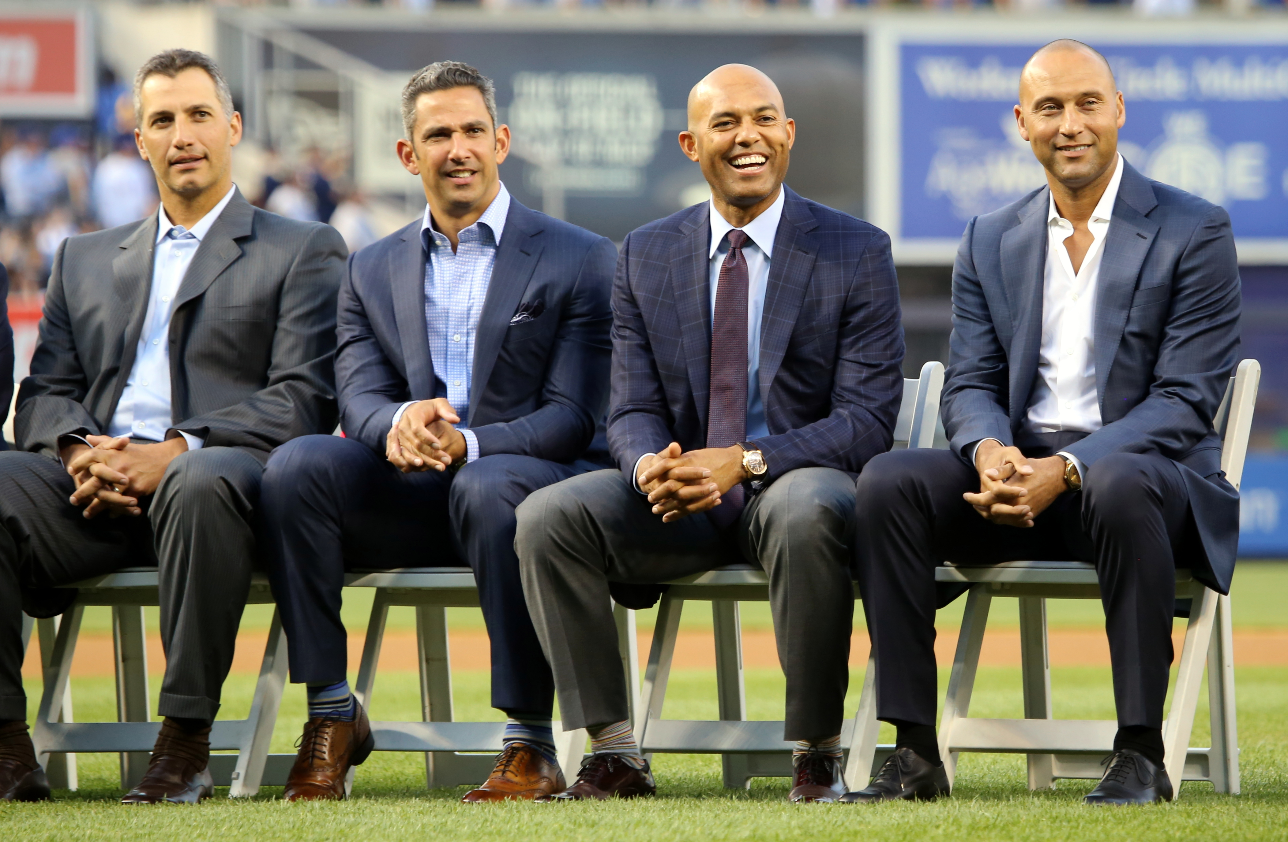 Former New York Yankees players Andy Pettitte, Jorge Posada, Mariano Rivera, and Derek Jeter look on during Bernie Williams Day at Yankee Stadium on May 24, 2015